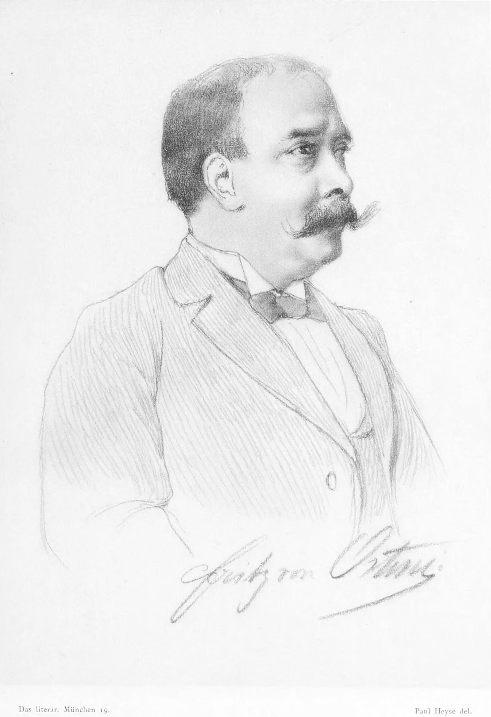 Fritz von Ostini (1861–1927)